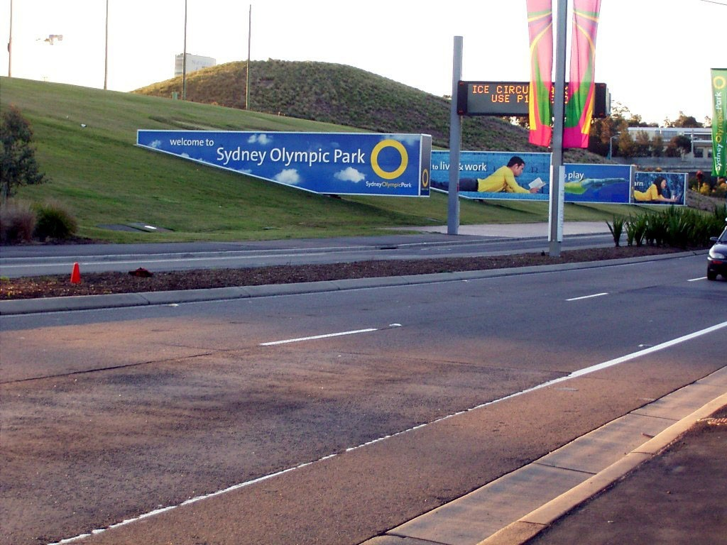 Sydney Olympic Park. Own photo.